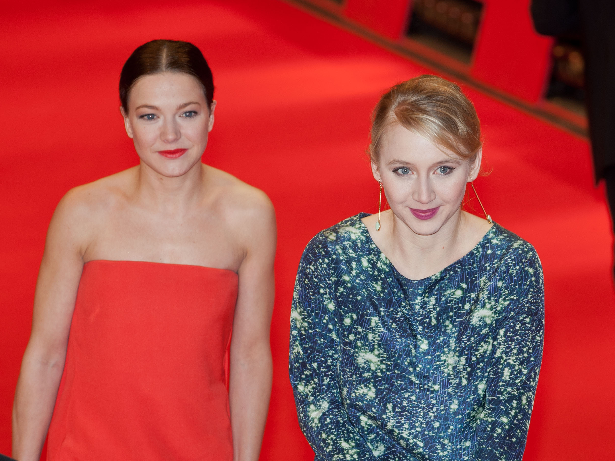 German Actresses Hannah Herzsprung (left) and Anna Maria Mühe at the Berlin Film Festival 2013